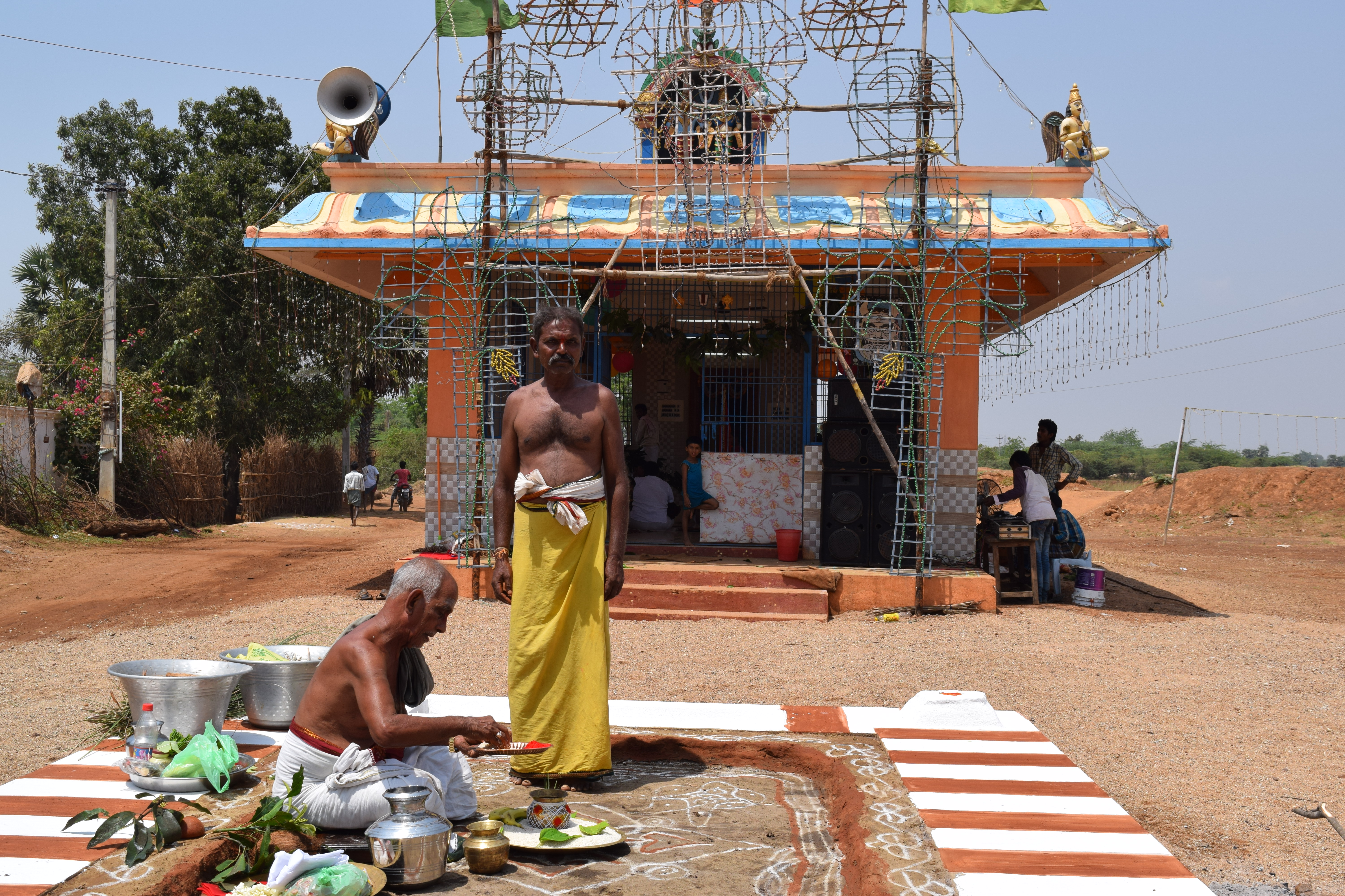 This is Sri Panduranga Swamy temple in Chemuru Village, Srikalahasti Mandal, Chittor district, Andhra Pradesh, India